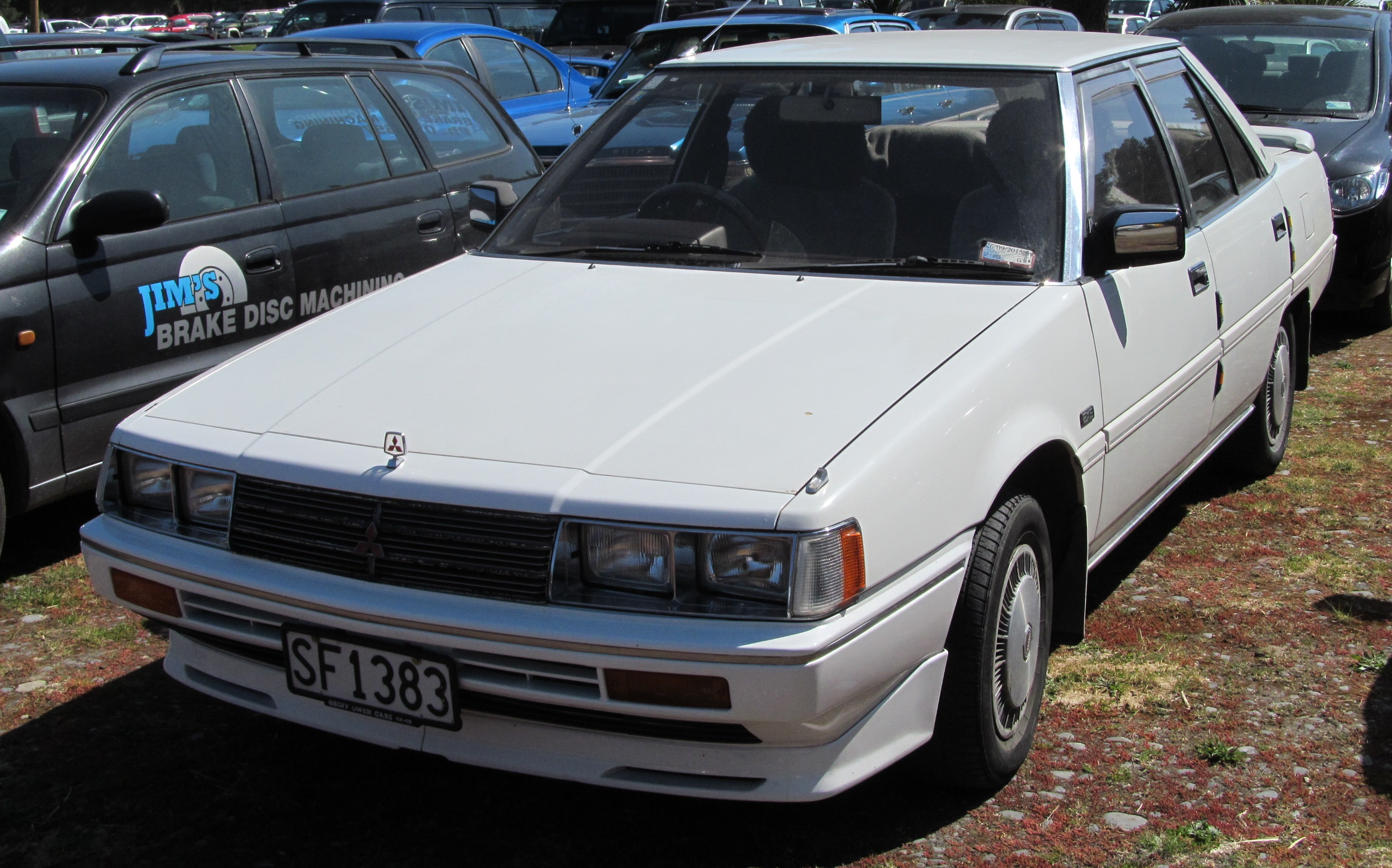 1988 Mitsubishi Eterna EX-E (Japan) Vehicle registration enquiry results Jurisdiction New Zealand Registration SF1383 Chassis code E12A-008959 Engine code G37B Compliance date 1993-09-27 Year of manufacture 1988